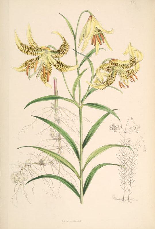 Scanned from: Henry John Elwes: A monograph of the genus Lilium; illustrated by W.H. Fitch. Taylor and Francis, London 1880